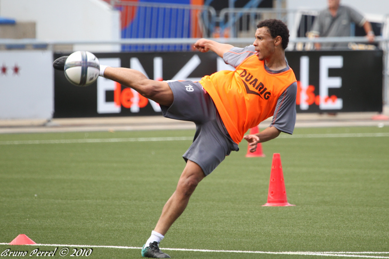 Francis Coquelin, player from the FC Lorient during a practice in september 2010